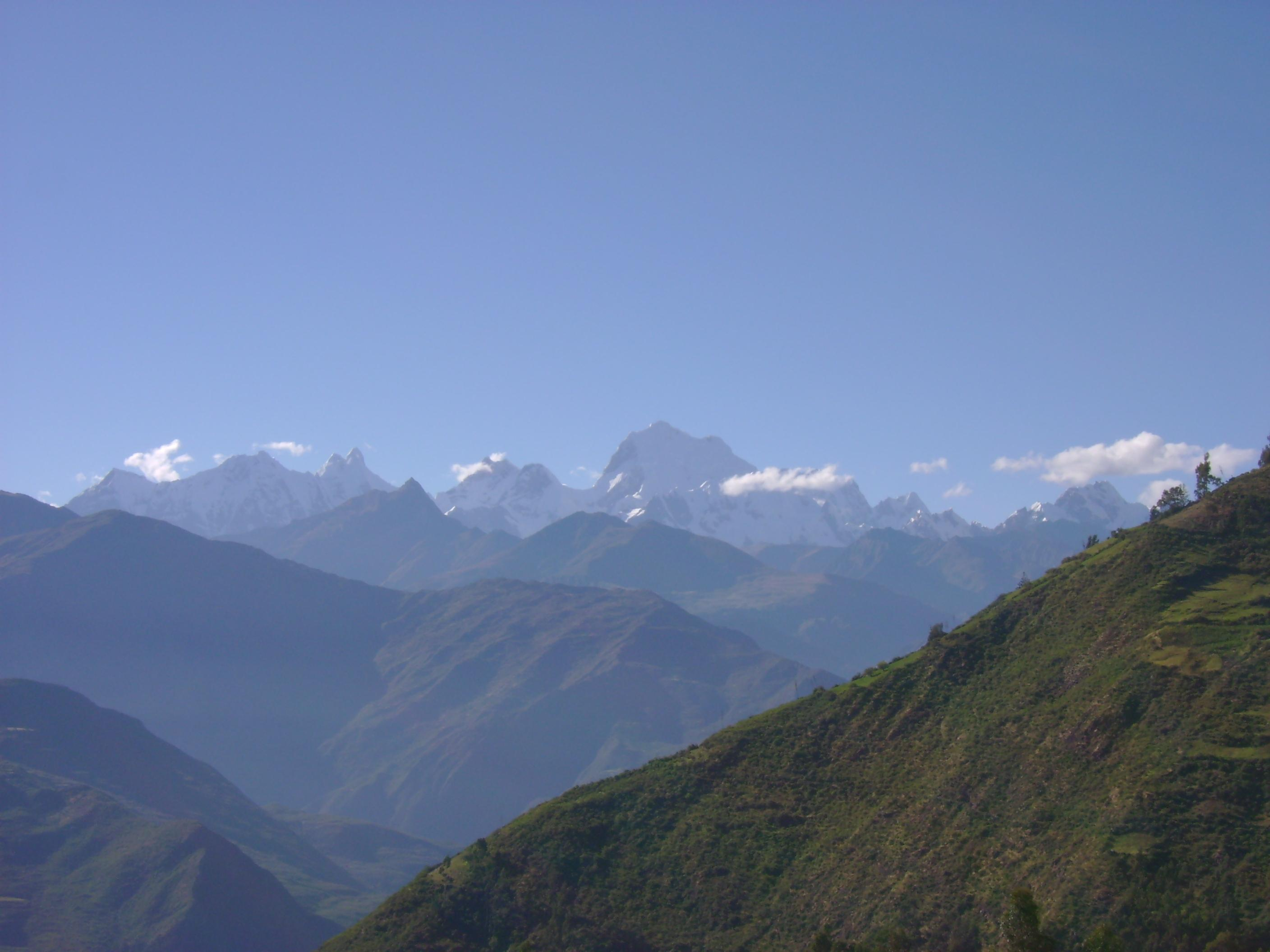 Cordillera Huayhuash bluish hue.